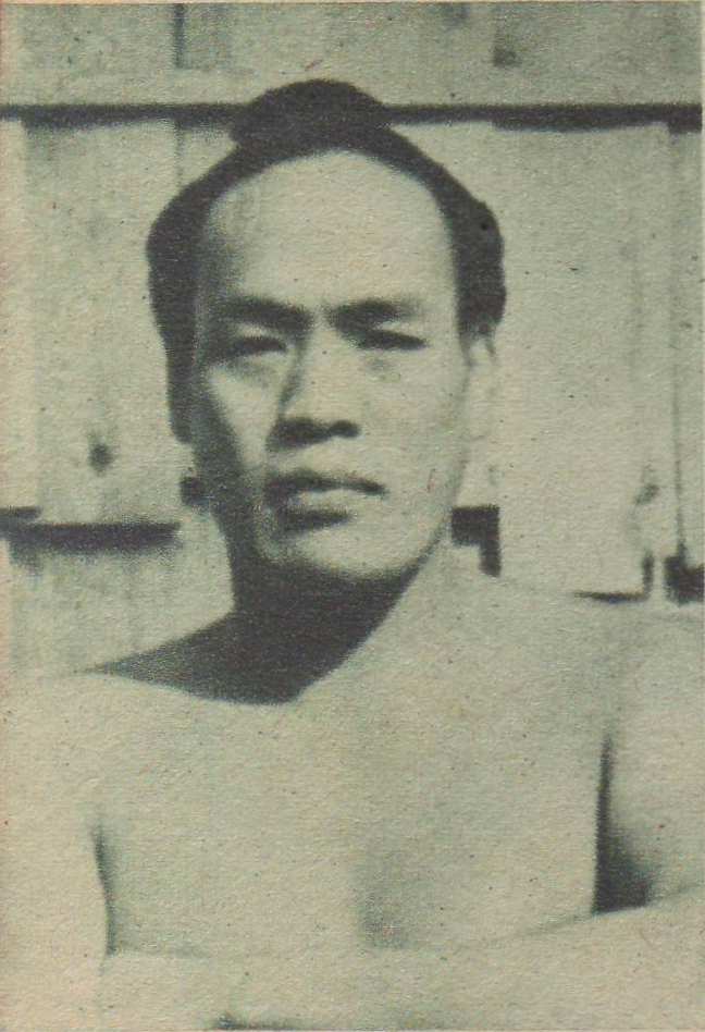 Nanatsuumi Misao (Sumo wrestler from Japan. Maegashira). Shooting earlier than 1955.